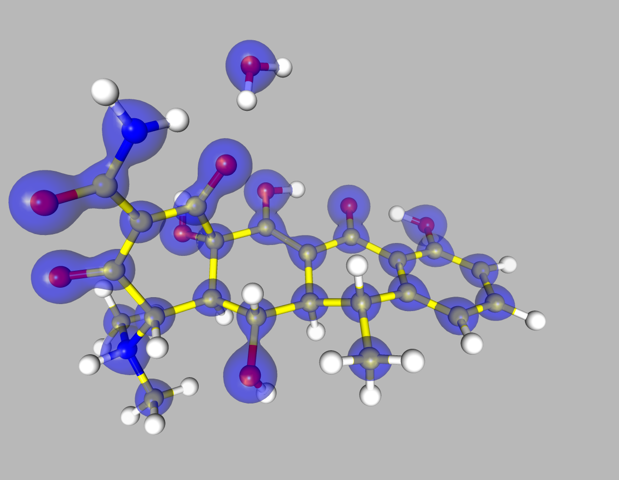 Isosurface of electron density for doxycycline resulting from Independent Atom Model refinement at 1.5A/e^3 level.